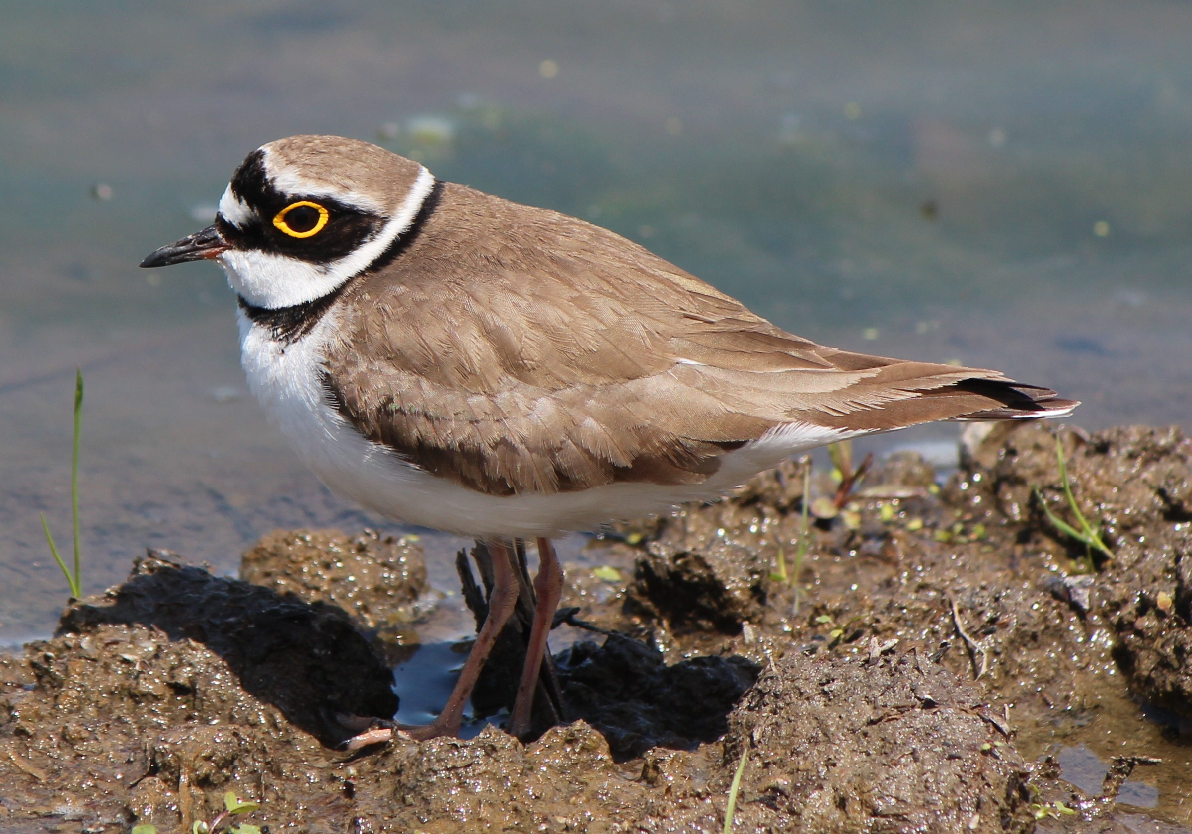 Little Ringed Plover (Charadrius dubius curonicus), summer plumage, in Aichi prefecture, Japan.